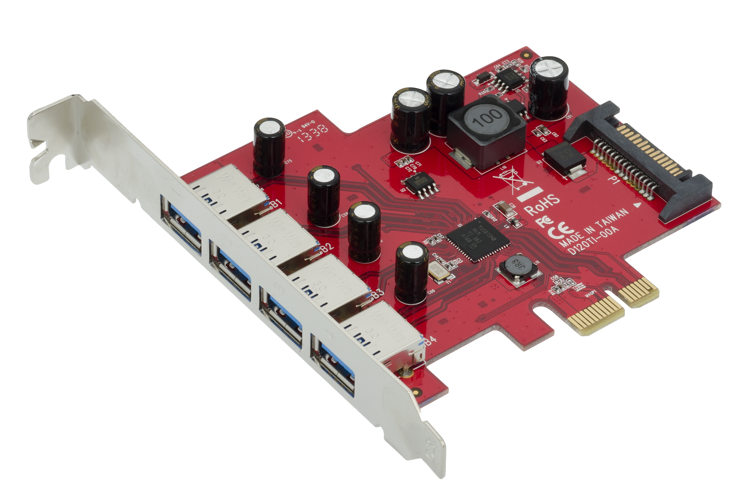 A USB 3.0 PCI Express 2.0 card for a computer. Model RC-229U4, this card provides 4 extra USB 3.0 cards to the back of a computer tower.